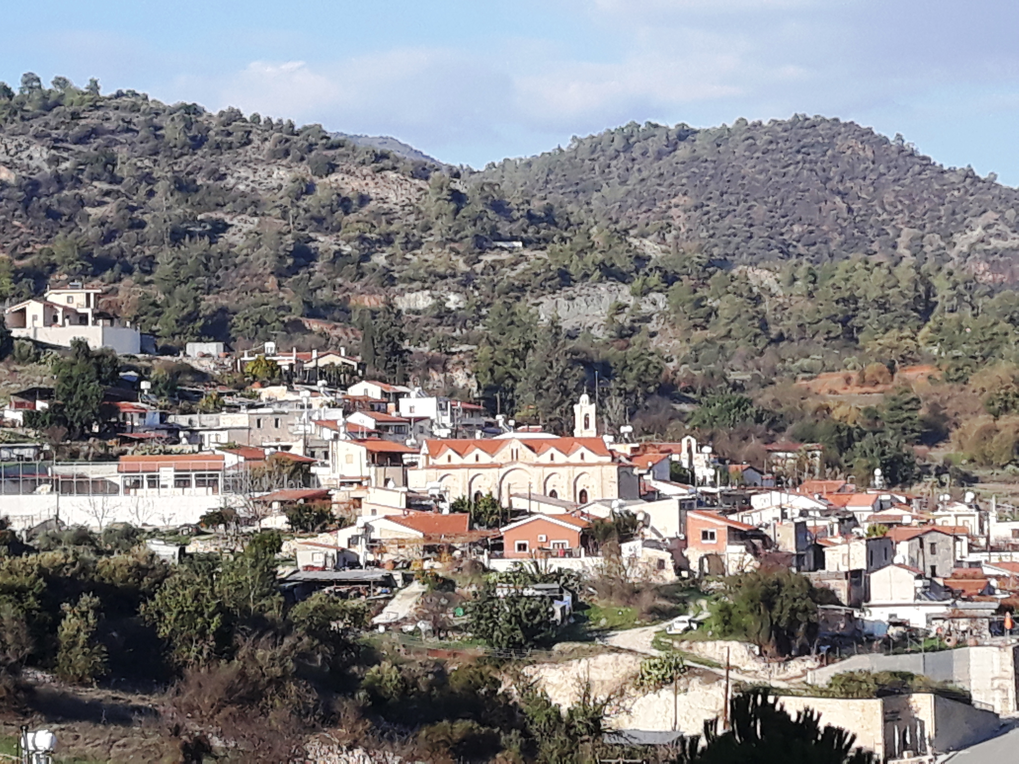 Panoramic view of Gerasa, Cyprus.